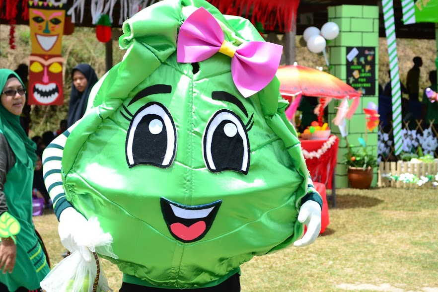 SUKAN 7